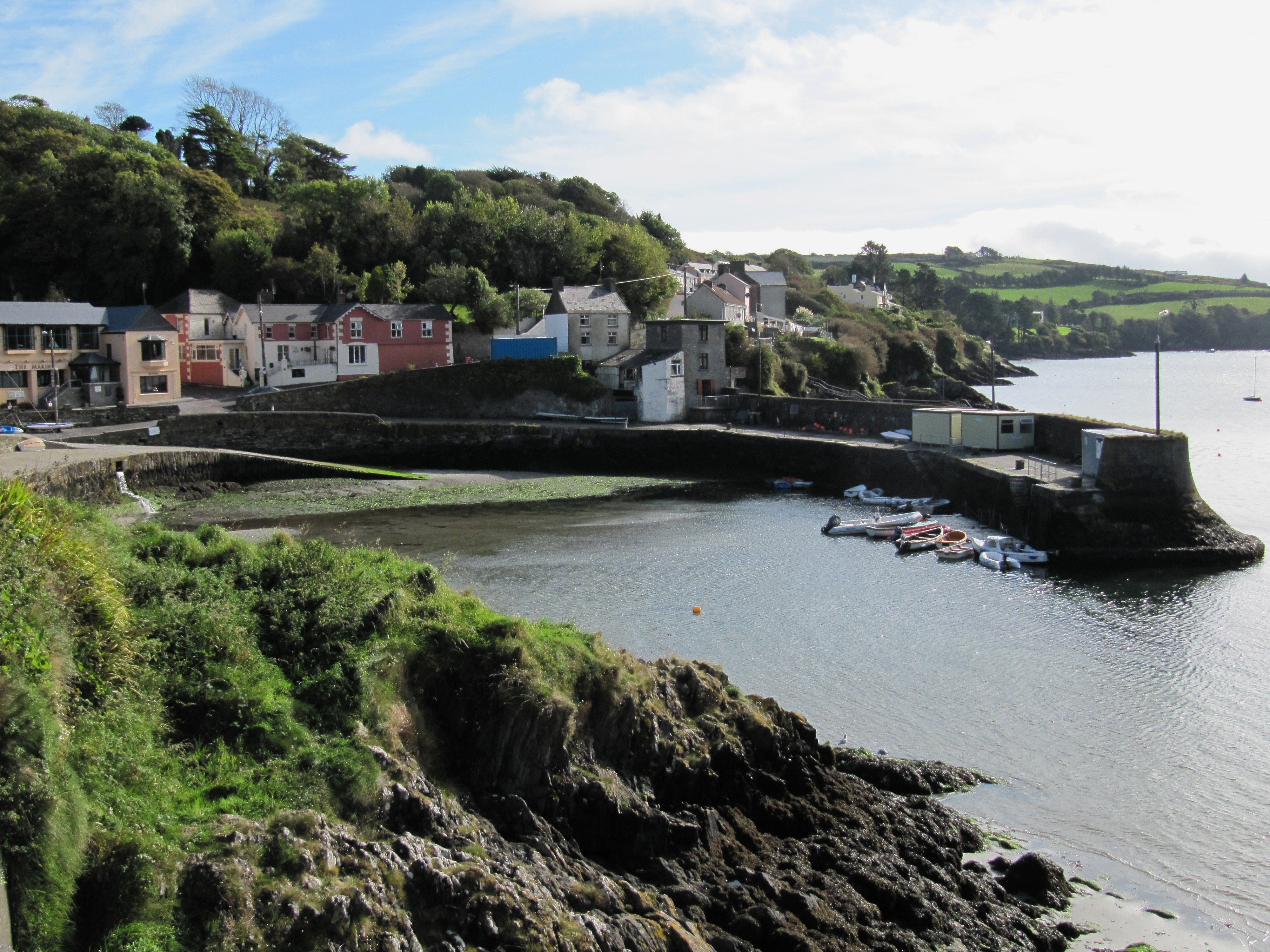 The fishing harbour of Glandore, Co. Cork